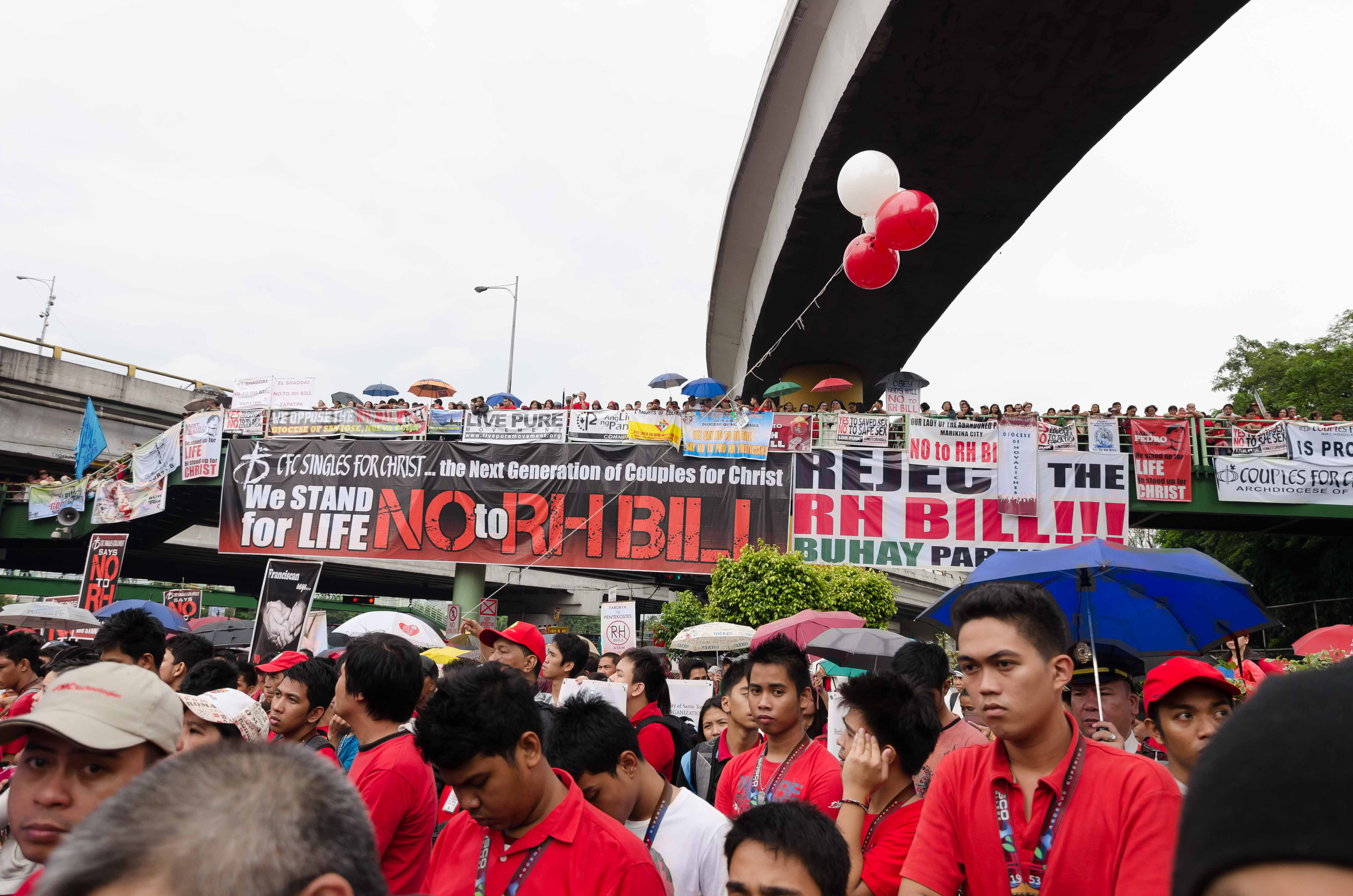 Mass rally / protests organized by the Catholic Church on EDSA in opposition to the then-Reproductive Health (RH) Bill.